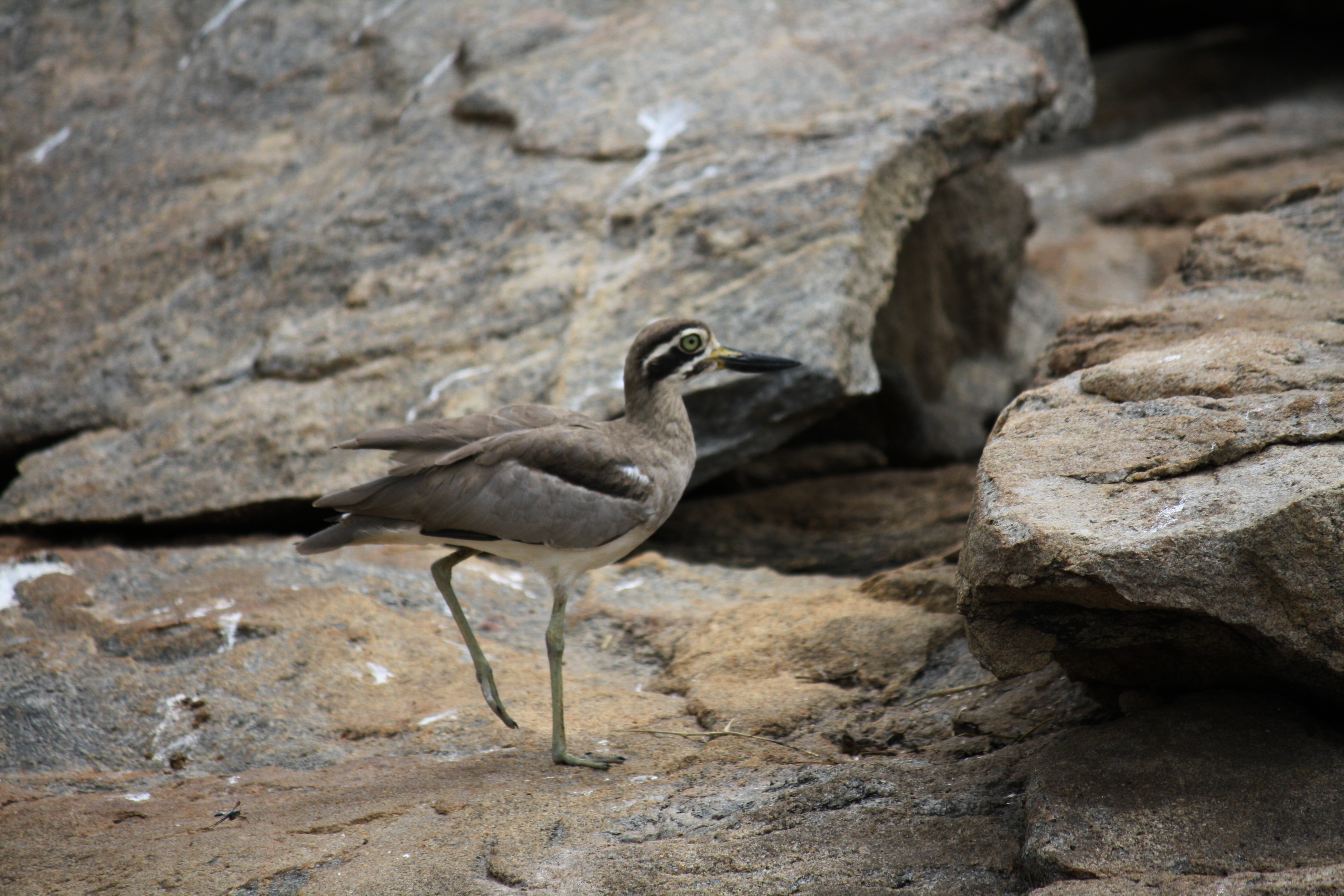 Great Stone Plover or Great Thick-knee at Rangnathittu Sanctury near Banglore in India.